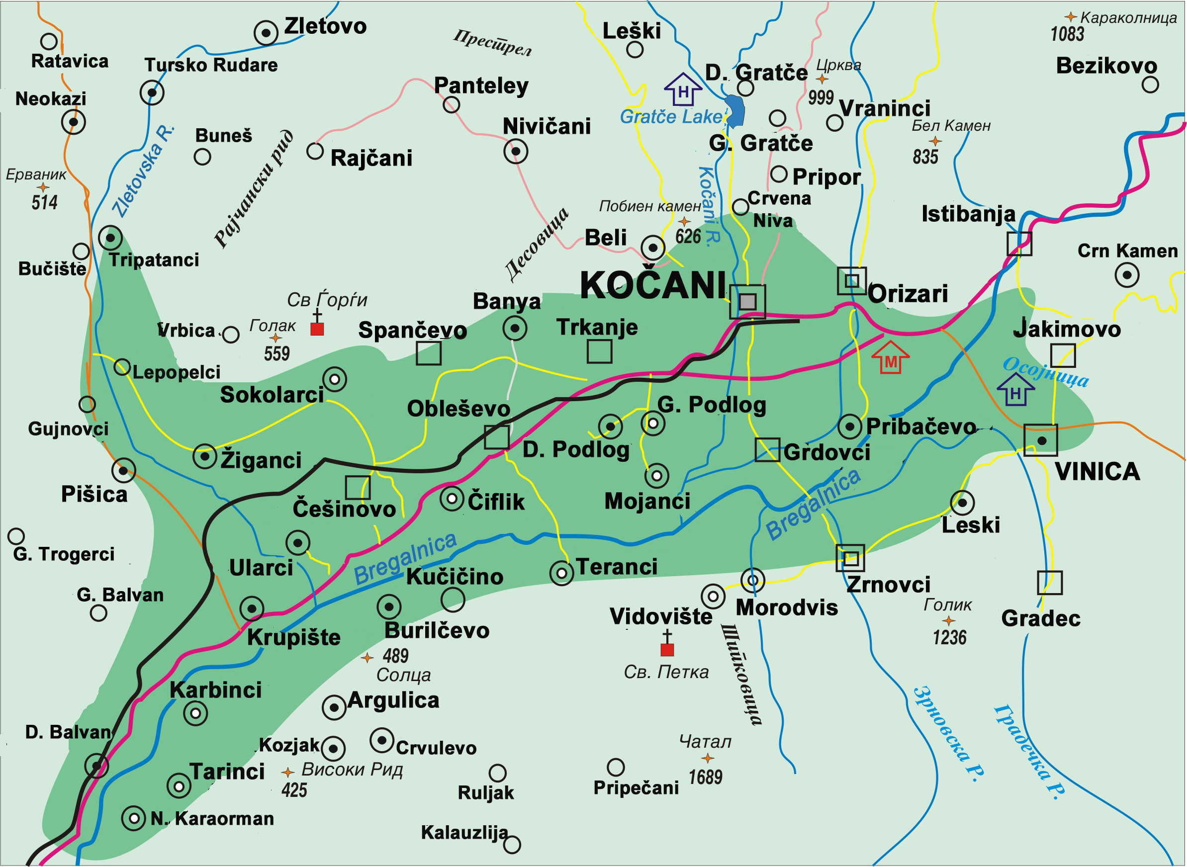 Map of Kocani valley, Republic of Macedonia